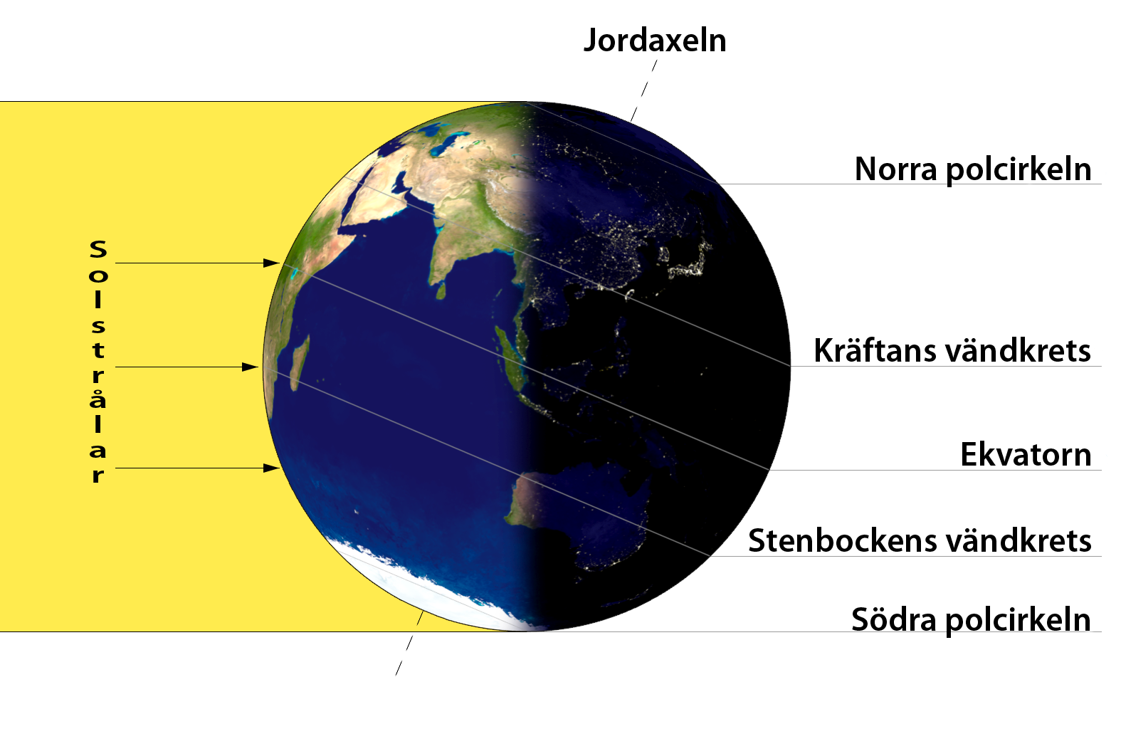 swedish version of Image:Earth-lighting-winter-solstice EN.png